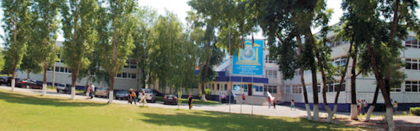 Building OSIM